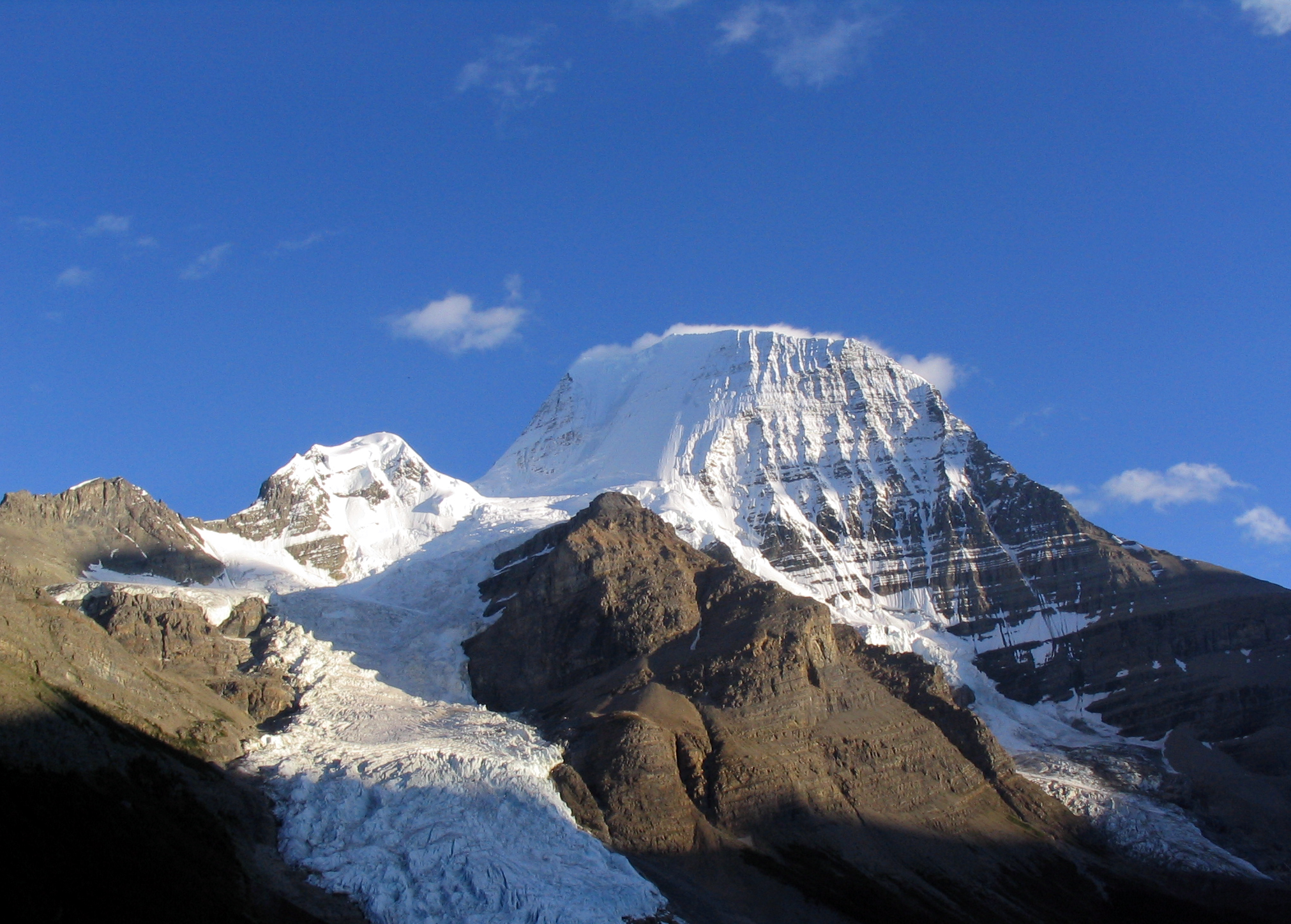 Mount Robson, British Columbia, Canada